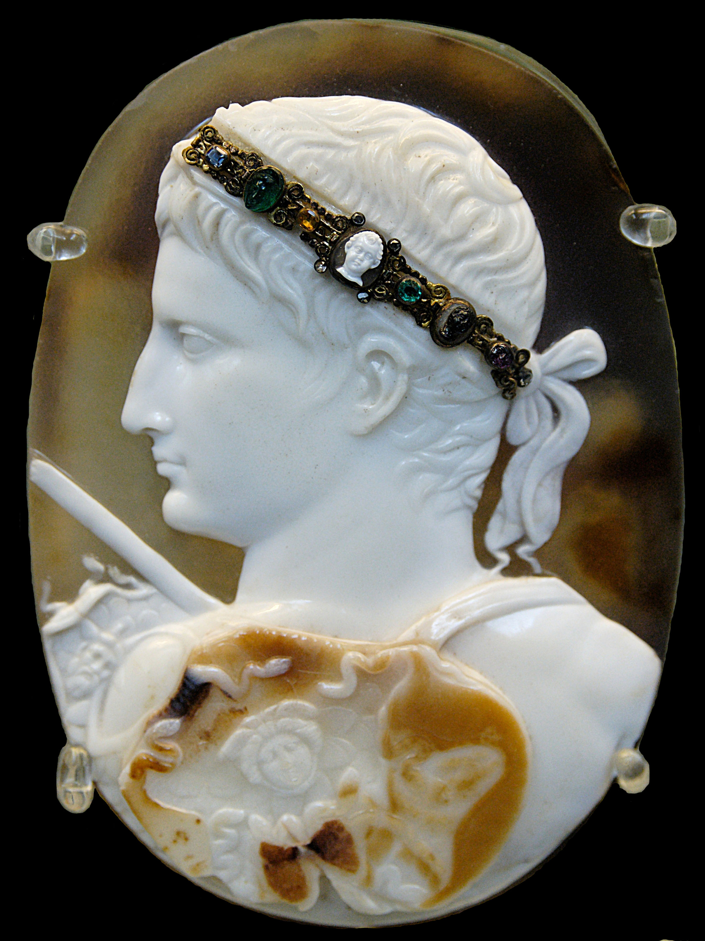 The "Blacas Cameo"; Portrait of Emperor Augustus wearing a gorgoneion and a sword-belt. Three-layered sardonyx cameo, Roman artwork, ca. 14-20 AD. The setting is medieval.